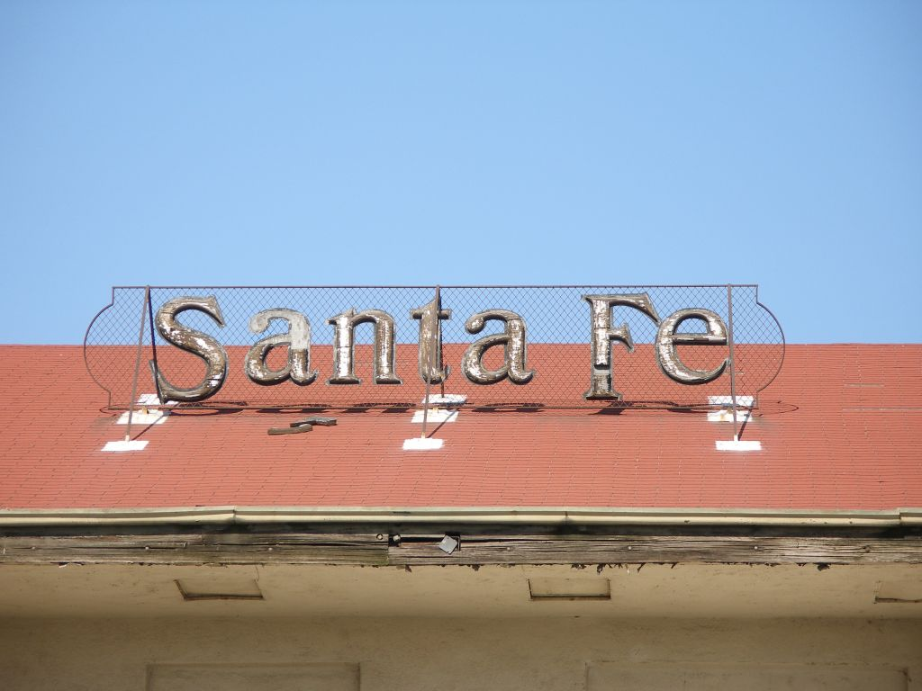 Atchison, Topeka and Santa Fe Railway sign — on the former Fresno Atchison, Topeka and Santa Fe train station.